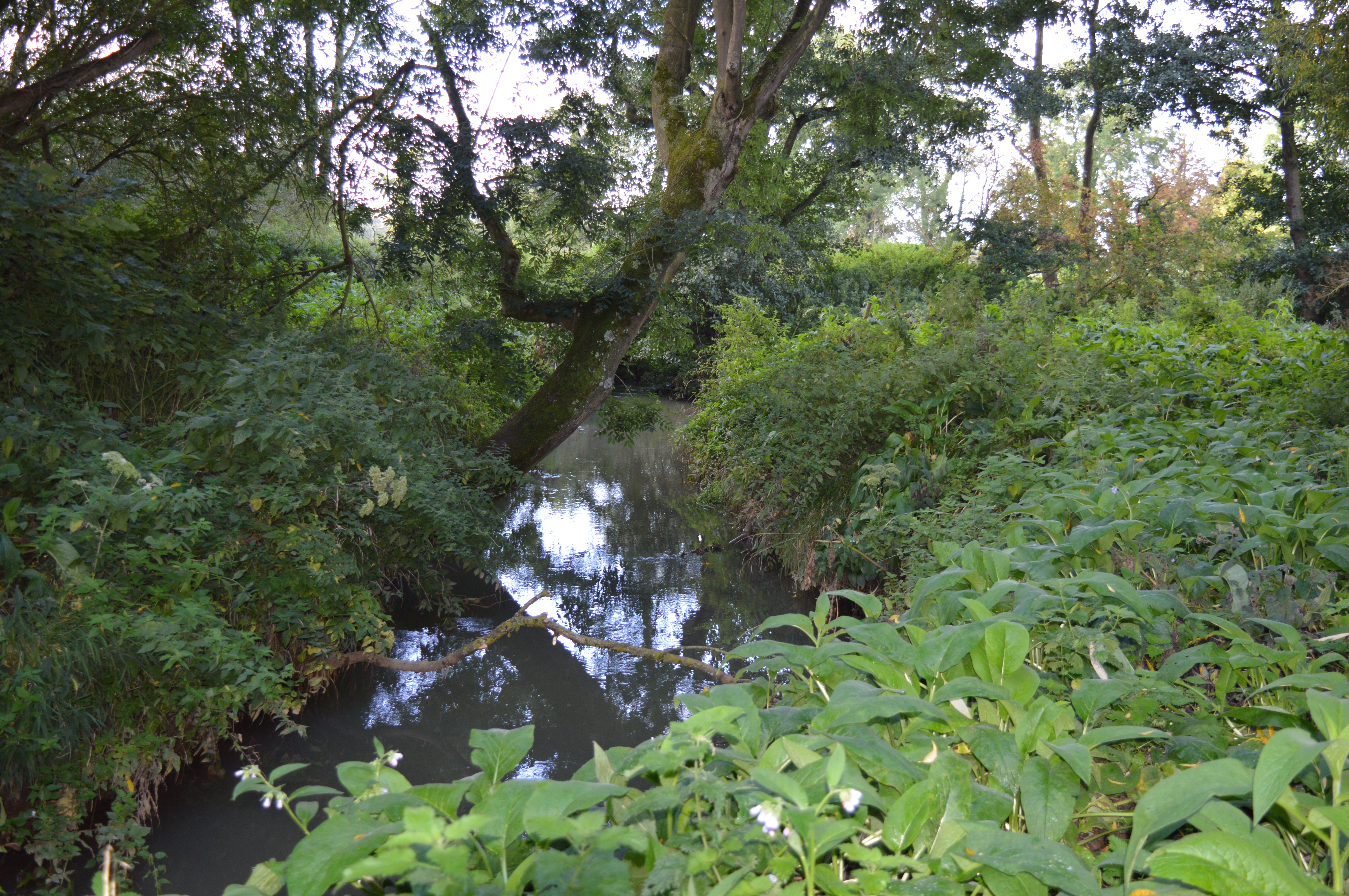 Flitwick Moor, a Site of Special Scientific Interest in Flitwick in Bedfordshire